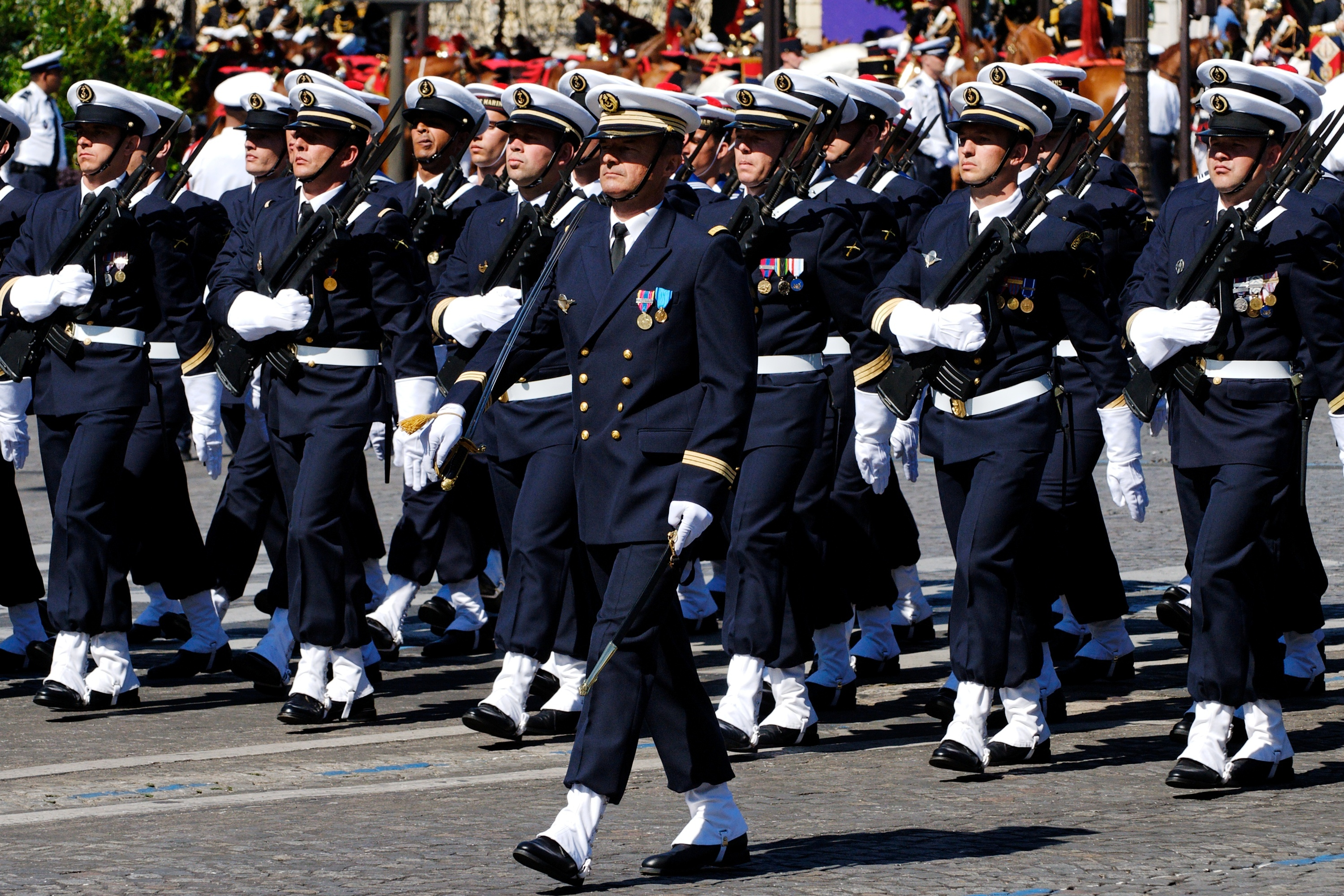 Group of naval fusiliers of Toulon, Bastille Day 2008 military parade on the Champs-Élysées, Paris.